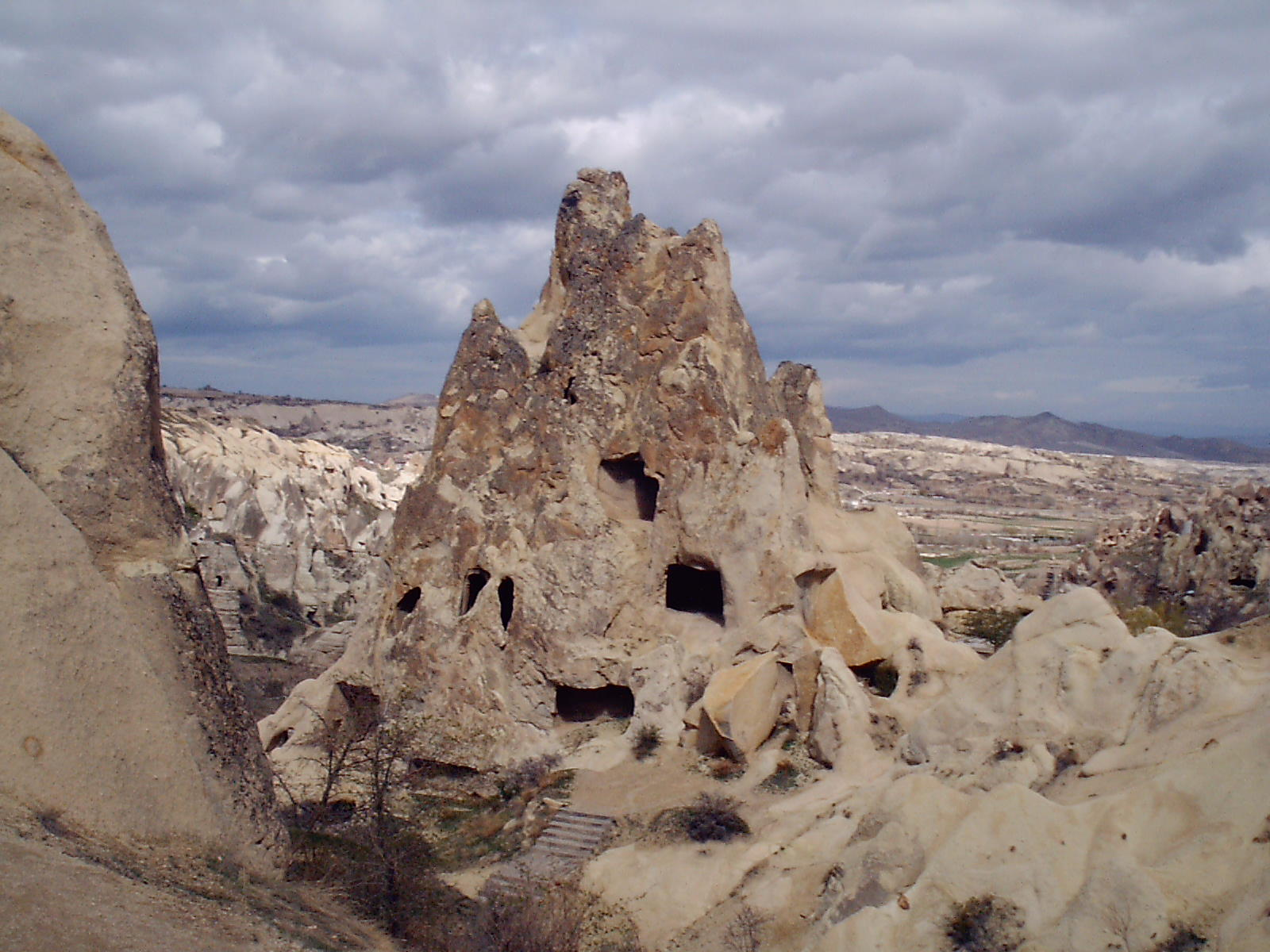 Capadoccia, Turkey